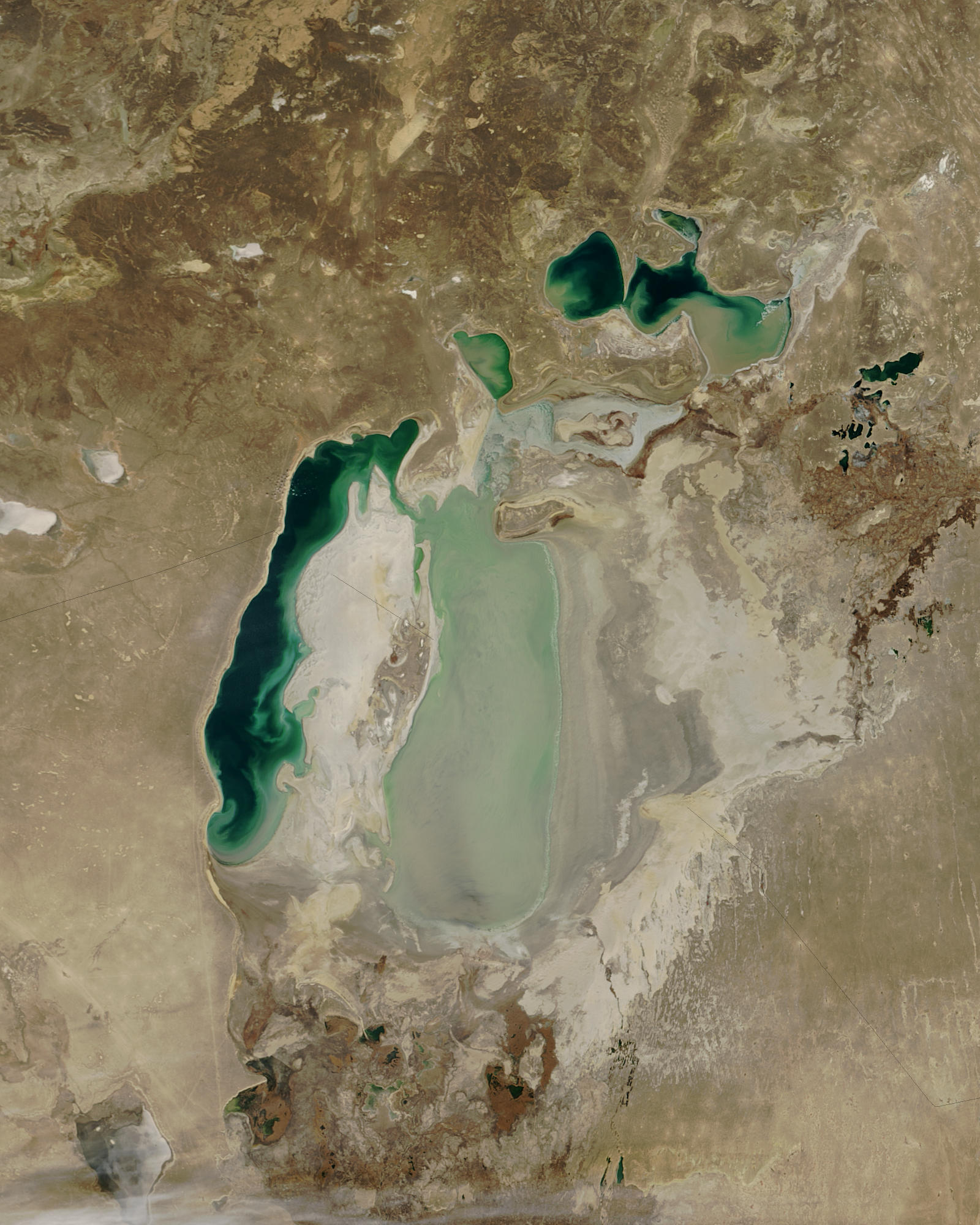 Mer d'Aral (29-11-2003) Provient du site de la NASA : Credit: Jeff Schmaltz, MODIS Rapid Response Team, NASA/GSFC Satellite: Terra Sensor: MODIS Data Start Date: 11-29-2003 Data End Date: 11-29-2003 VE Record ID: 26239 Unless otherwise noted, all images and animations made available through Visible Earth are generally not copyrighted. You may use NASA imagery, video and audio material for educational or informational purposes, including photo collections, textbooks, public exhibits, and Internet web pages.